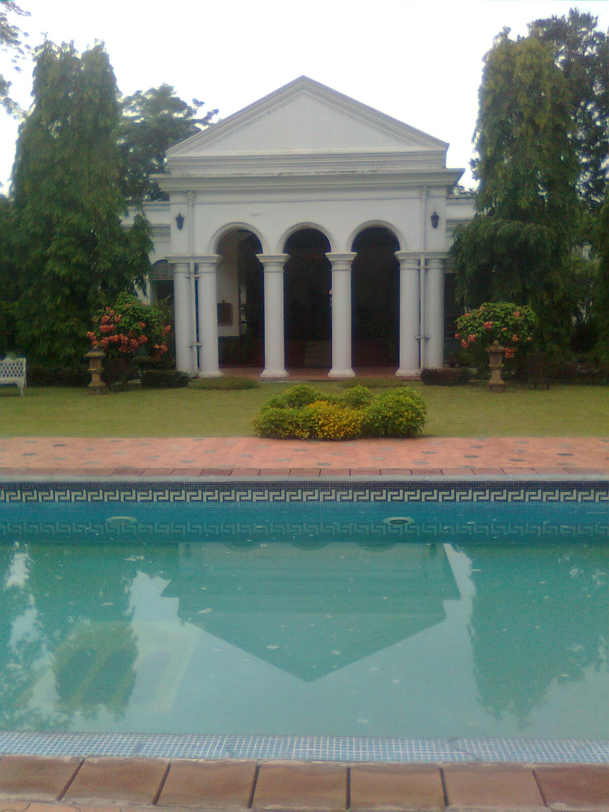 Thengal Manor situated in Jorhat, Assam অসমীয়া: ঠেঙাল ভৱন যোৰহাট জিলাৰ তিতাবৰৰ জালুকনিবাৰীত অৱস্থিত